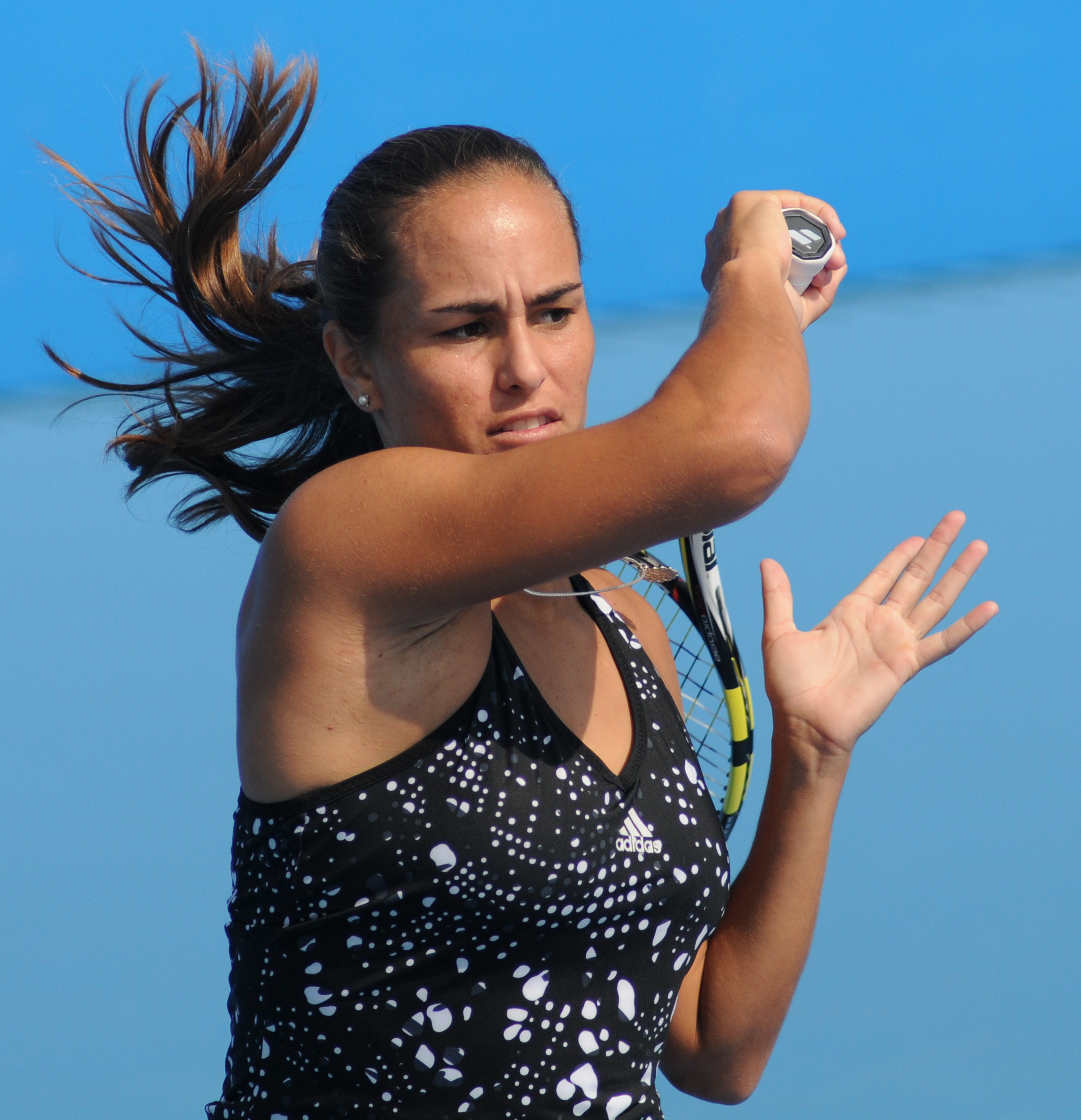 Mónica Puig at the 2014 China Open